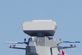 Crop of Esbern Snare BALTOPS 2010.JPG